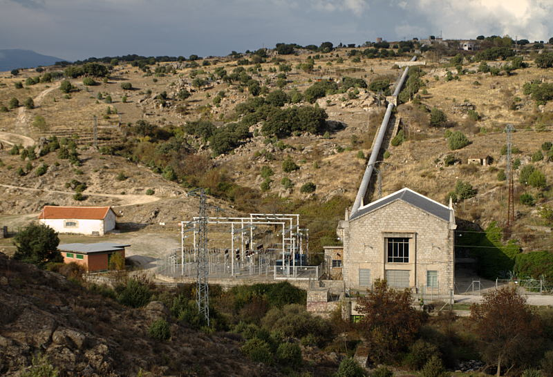 Hydroelectric power plant del Navallar